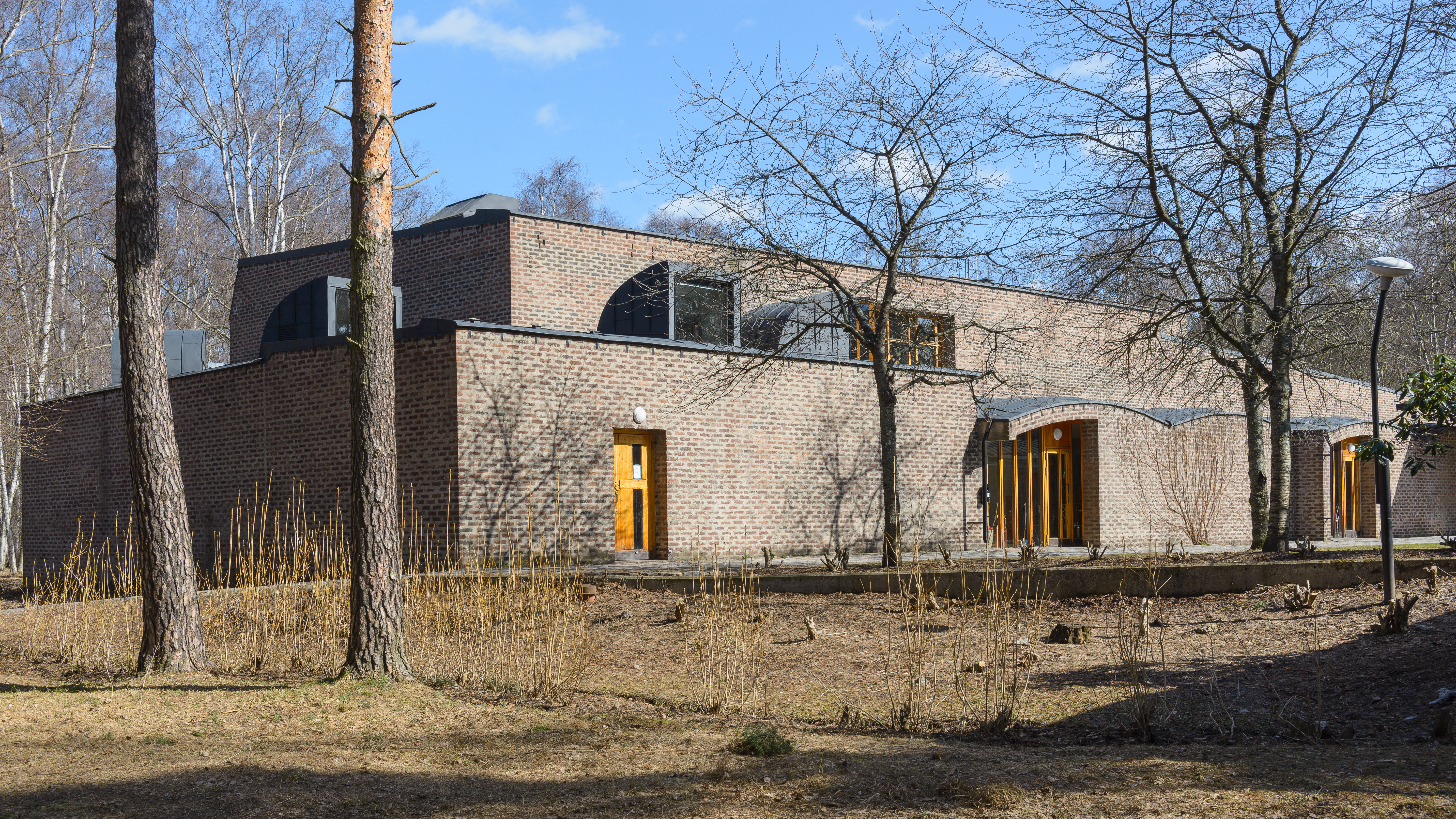 Markuskyrkan (St Mark`s church), Björkhagen, Stockholm. Built 1958-60. Architct: Sigurd Lewerentz.